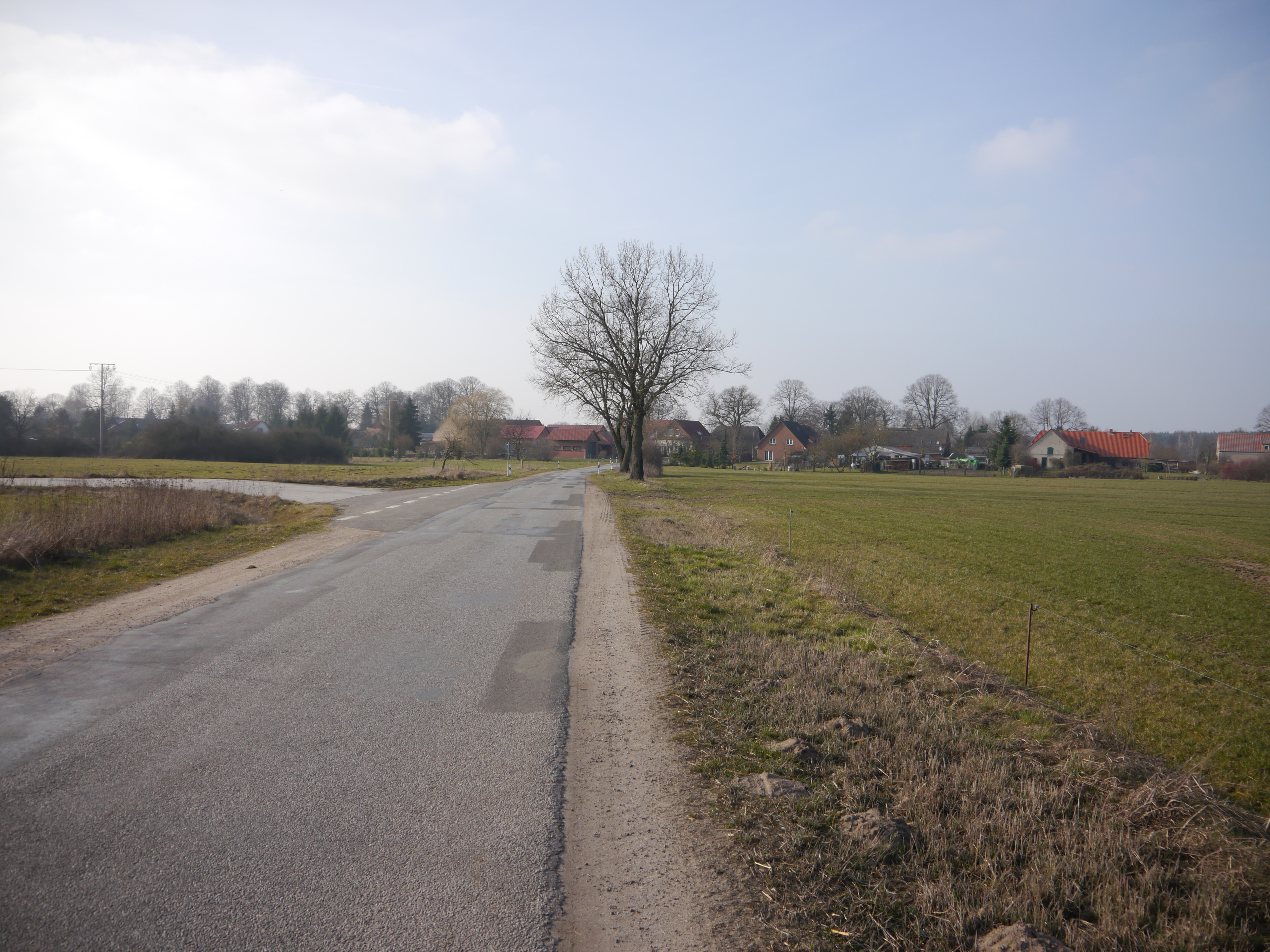 The town of Stolpe, Parchim seen from Schulstraße, looking north-west.